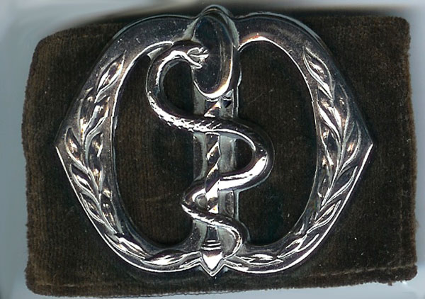 Dutch cap badge from the Dentists and Dispensers (1947-1951)